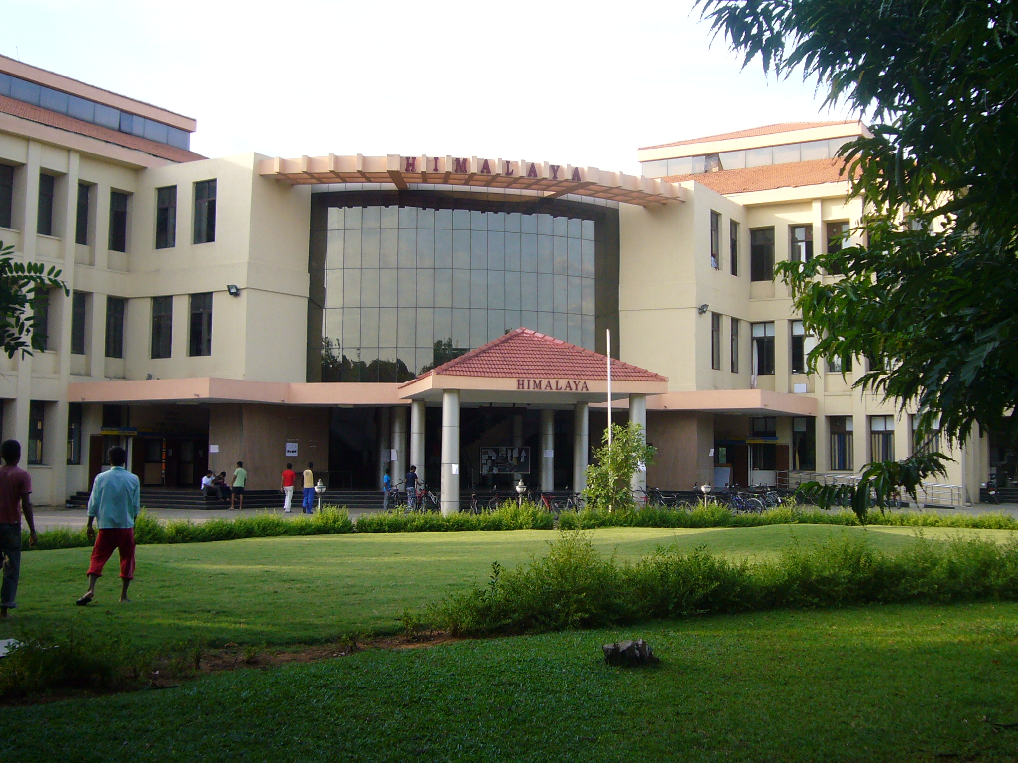 Main mess of the IIT Madras (Chennai)